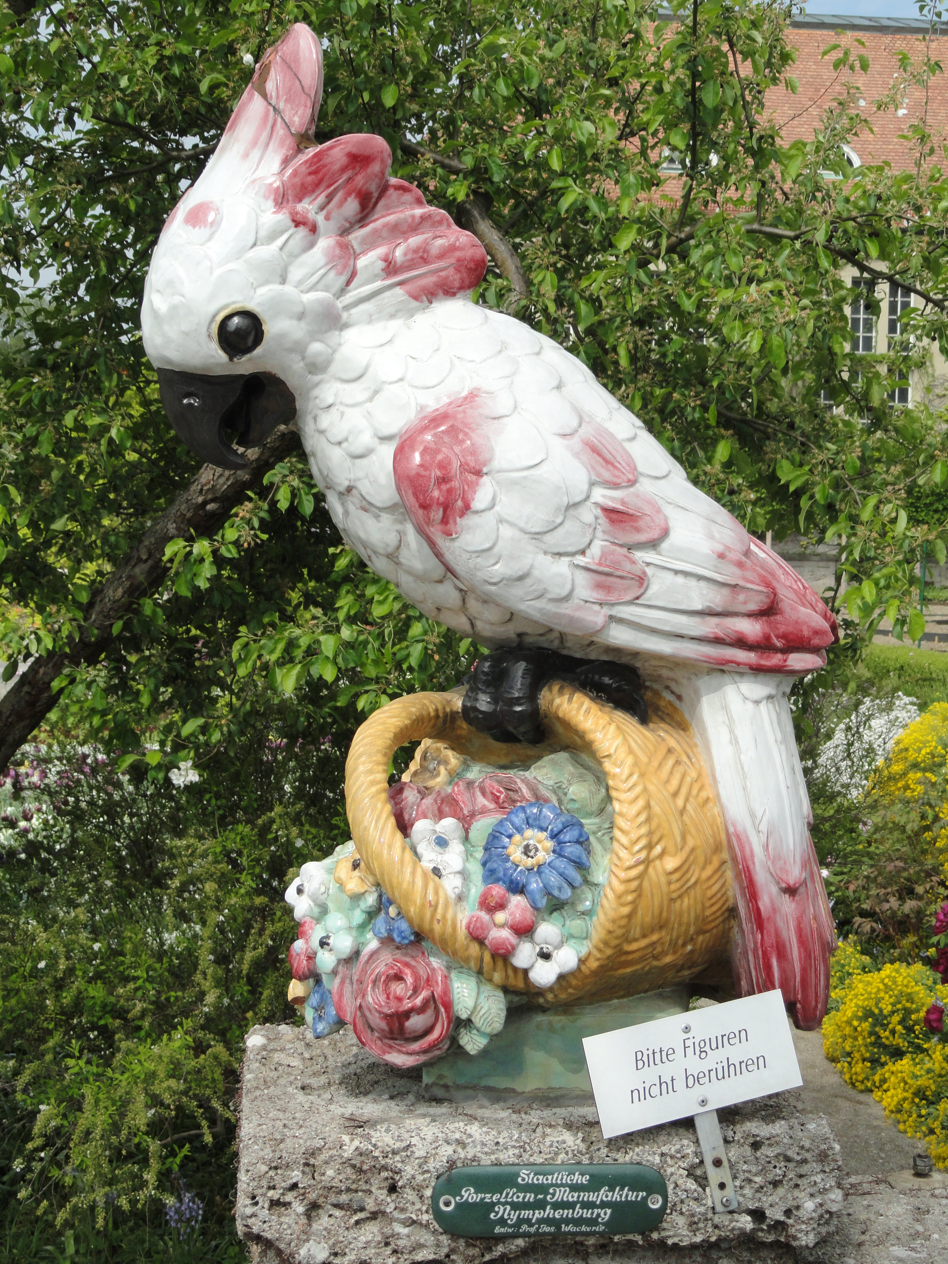 Porcelain in the Botanischer Garten München-Nymphenburg, Munich, Germany.